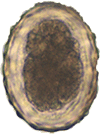 Nematode egg found in stool specimens of humans